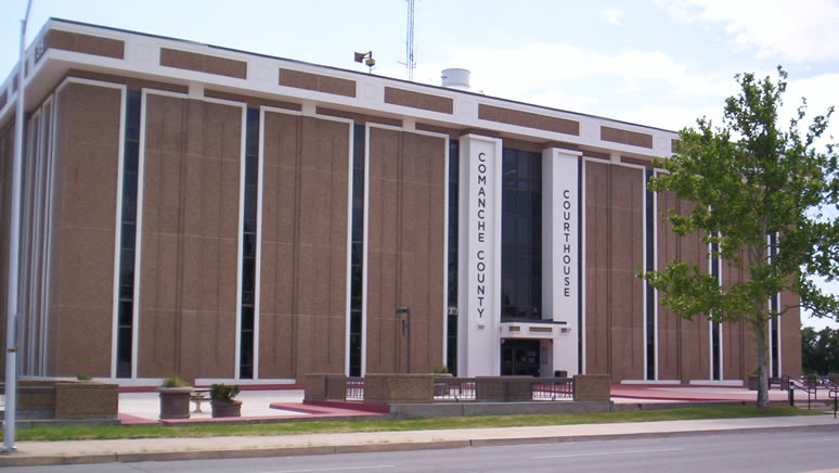 Picture of the Comanche County Courthouse in Lawton, Oklahoma